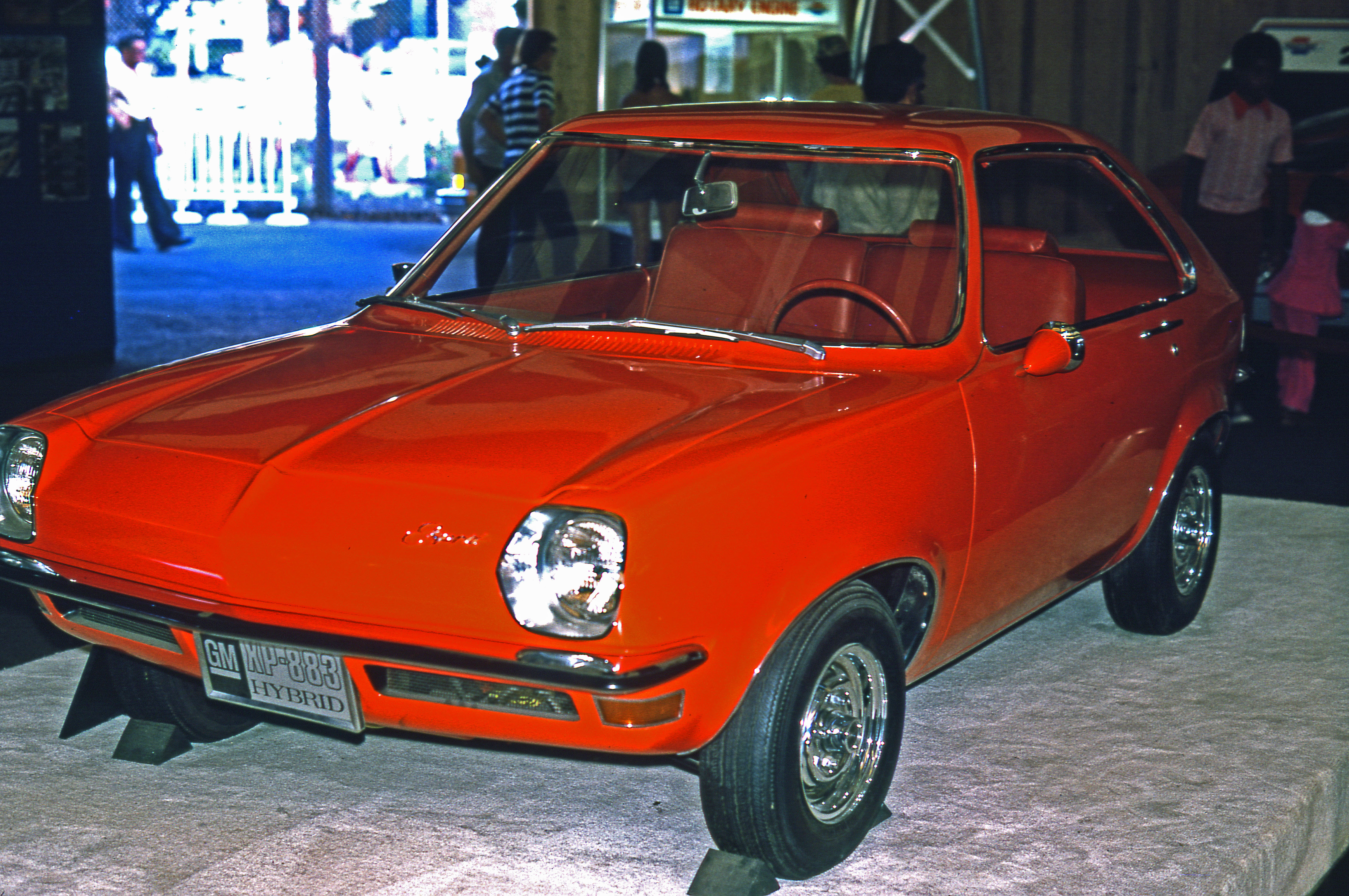 General Motors XP-883 experimental hybrid car built 1969 on display at Expo74, the 1974 World's Fair in Spokane, WA, USA.